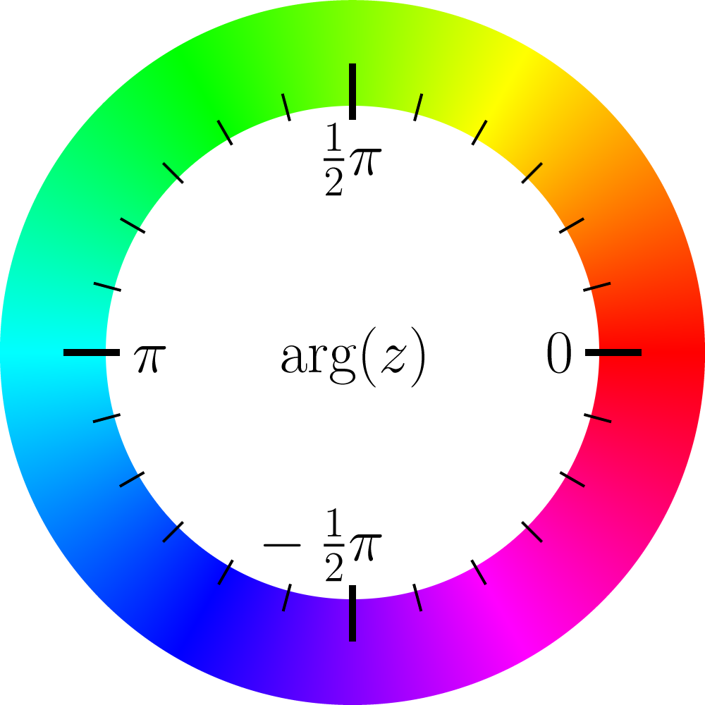 Hue circle for complex function plots